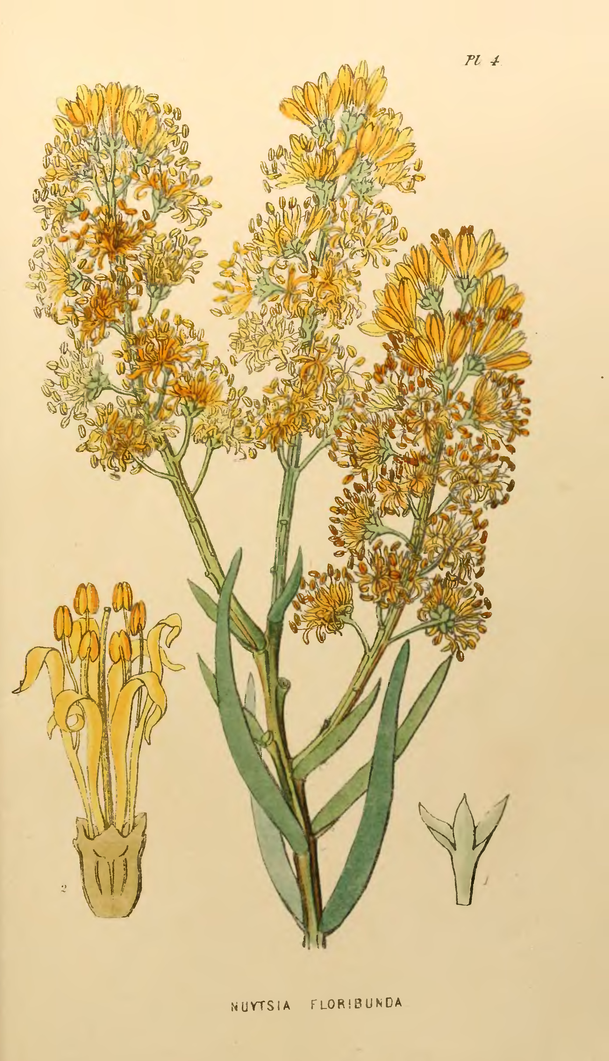 This is a plate from A sketch of the vegetation of the Swan River Colonyby John Lindley. The plant depicted is Nuytsia floribunda.